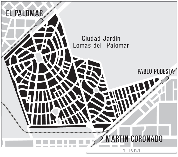 1960s map layout of planned urban community Ciudad Jardín featuring three railway stations and three squares all between walking distance.